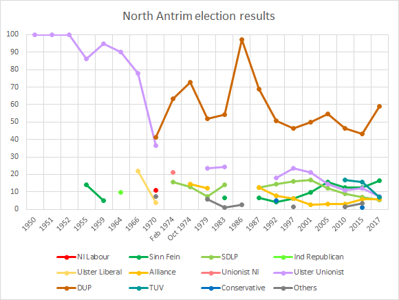 North Antrim election history